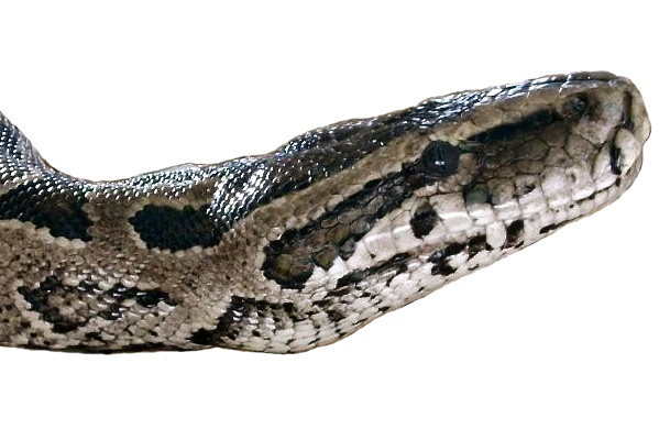 Lateral view of the head of an adult Southern Arican Rock Python (Python natalensis). This animal lives at the PheZulu Safari Park (Snake Park), South Africa. Picture donated by L. Kroone